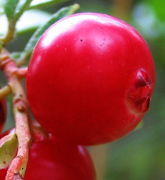 Cowberry. Uppland, Sweden.